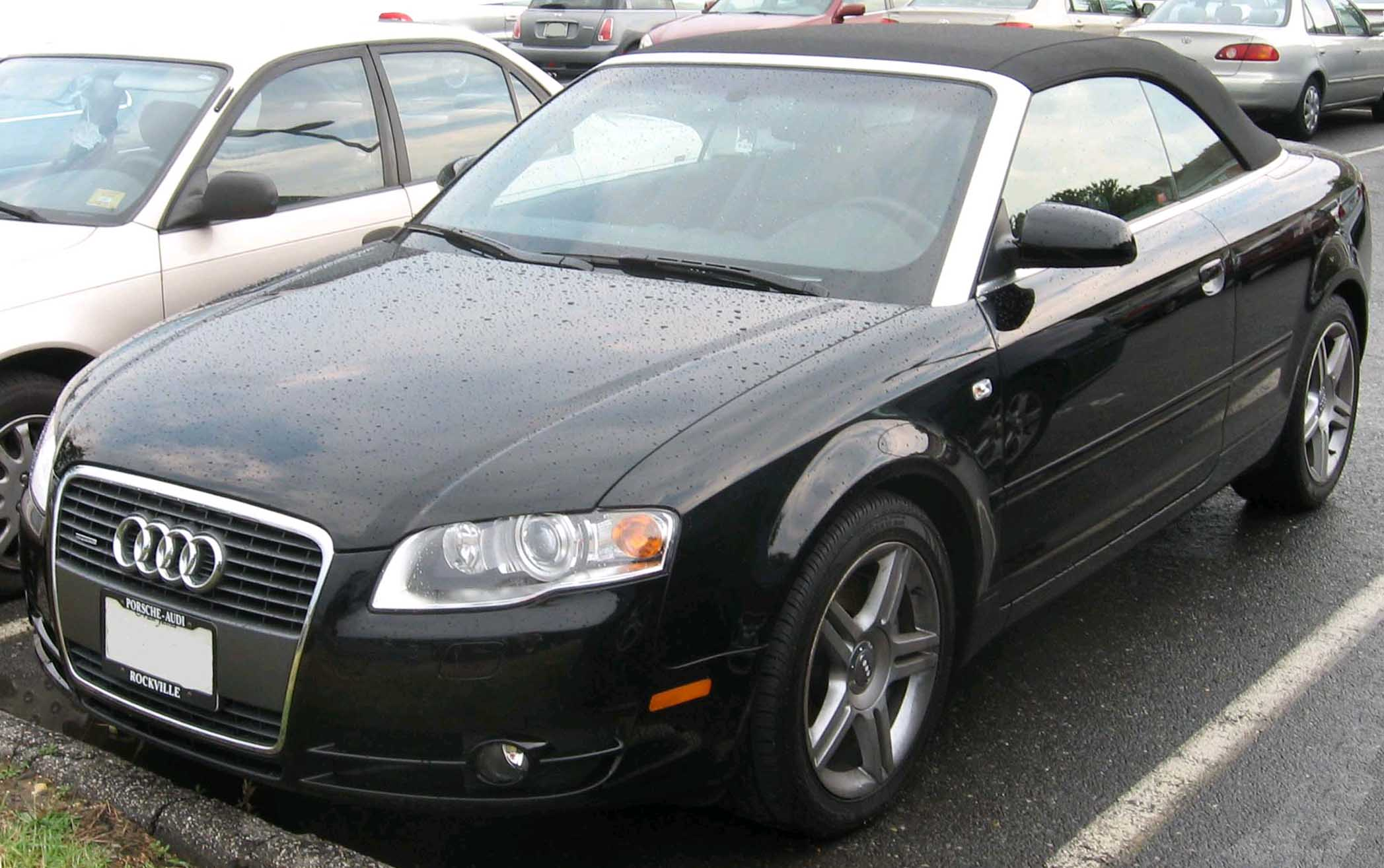 2007 Audi A4 photographed in College Park, Maryland, USA.